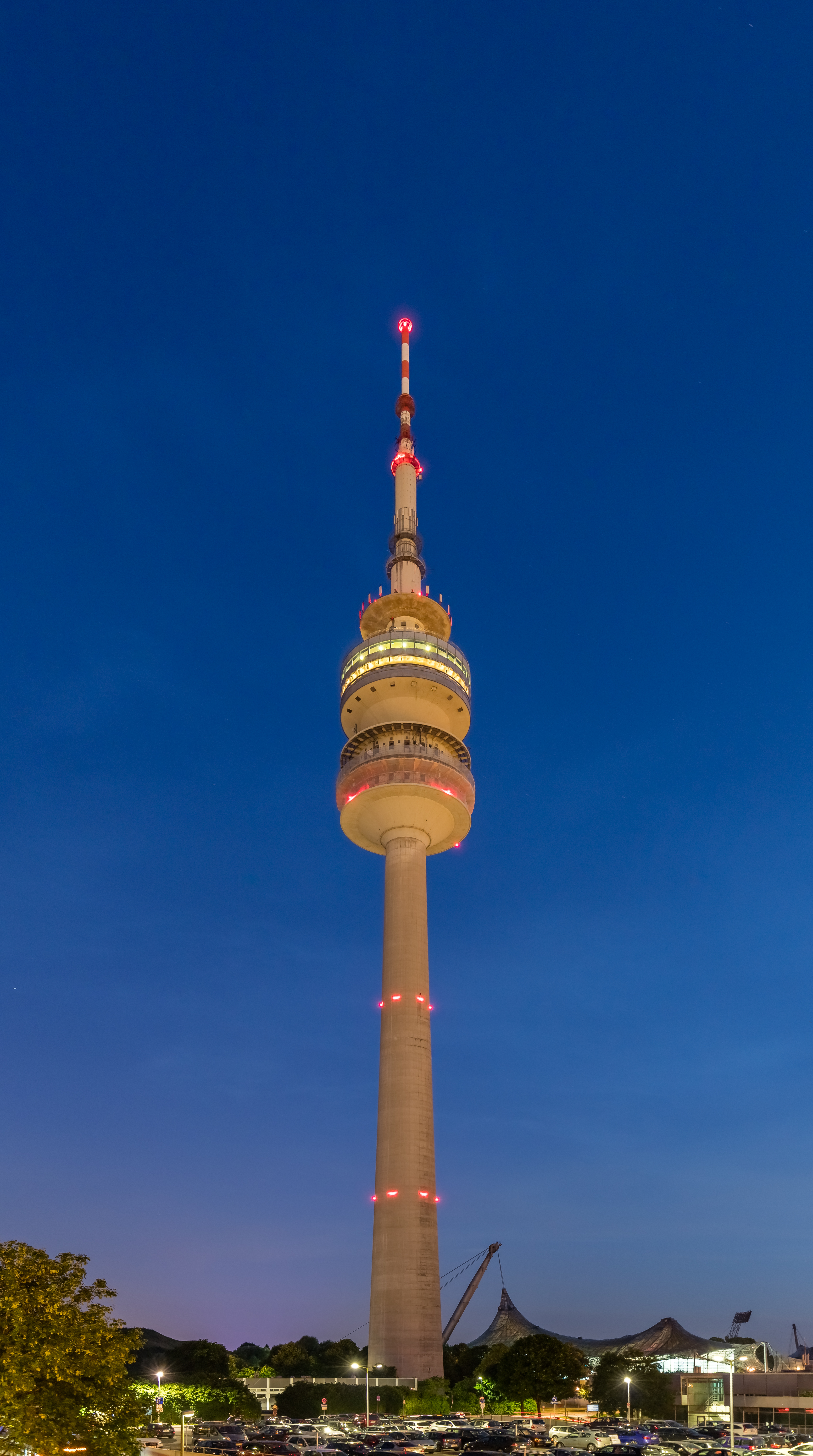 Olympic Tower, Munich, Germany